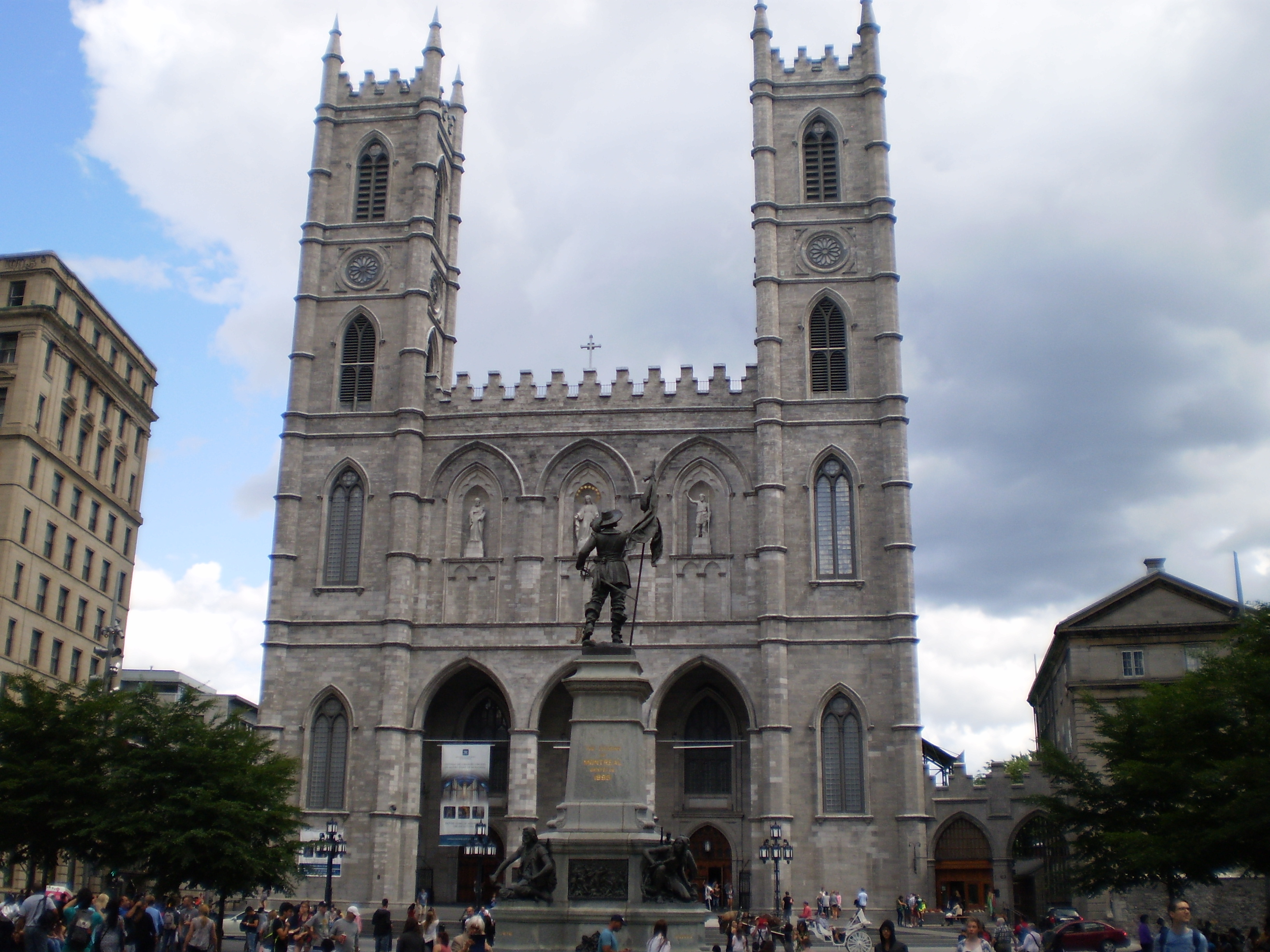 Notre-Dame Basilica (Montreal)